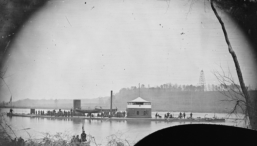 Monitor "Mahopac" on the Appomattox River with Crow's Nest signal tower in the background, 1864. National Archives photo NWDNS-111-B-409